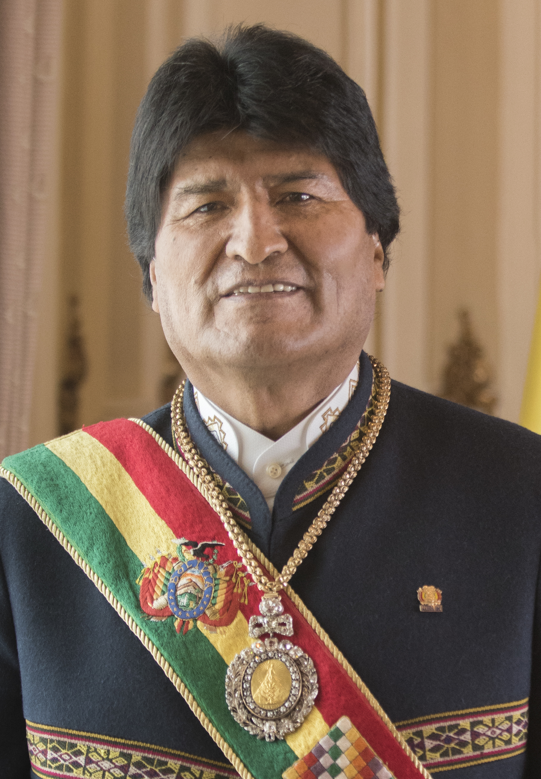 President of Bolivia since 2006